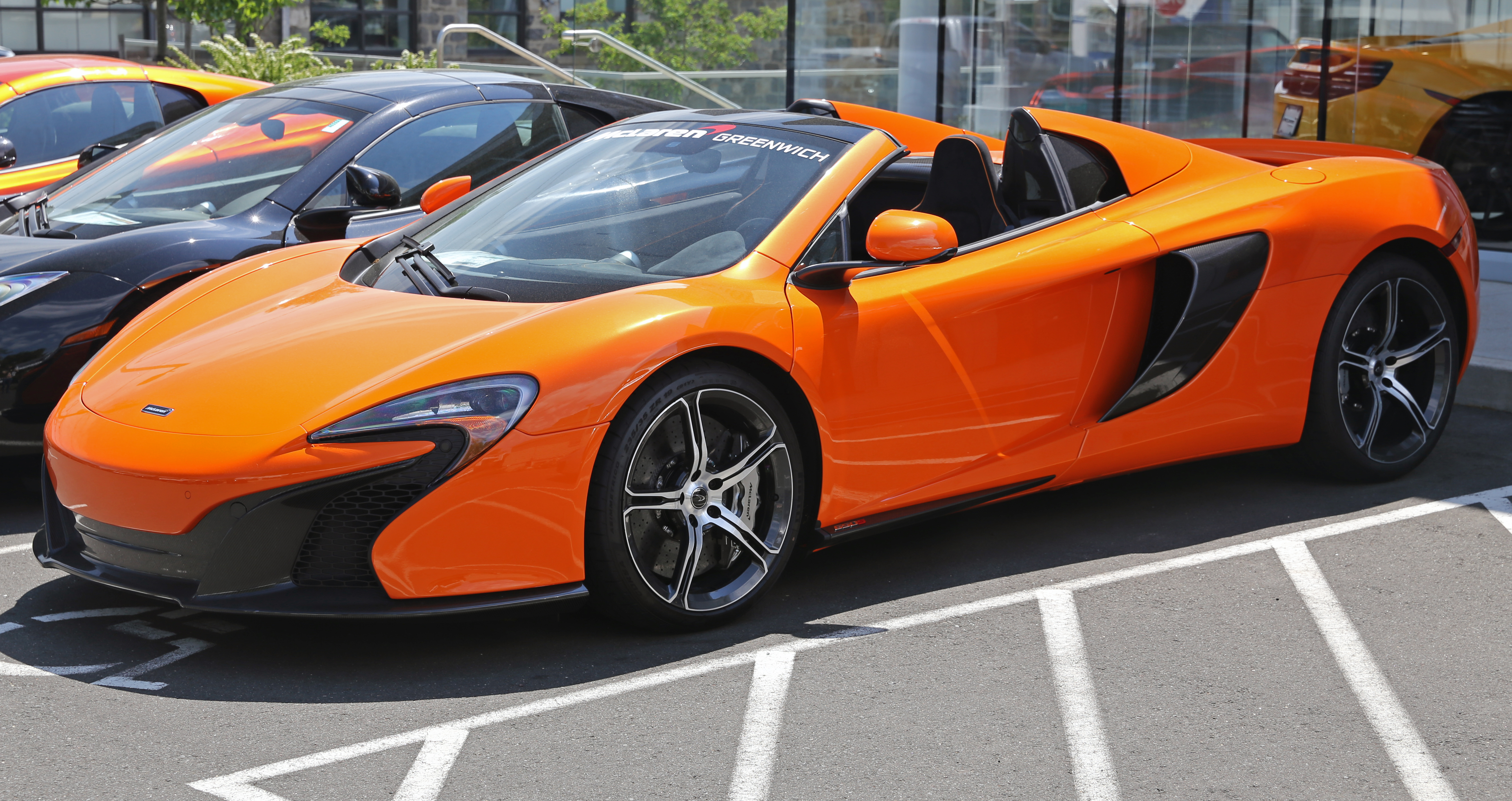 A 2015 McLaren 650S Spider with the full Carbon Fiber appearance pack, in Tarocco Orange.